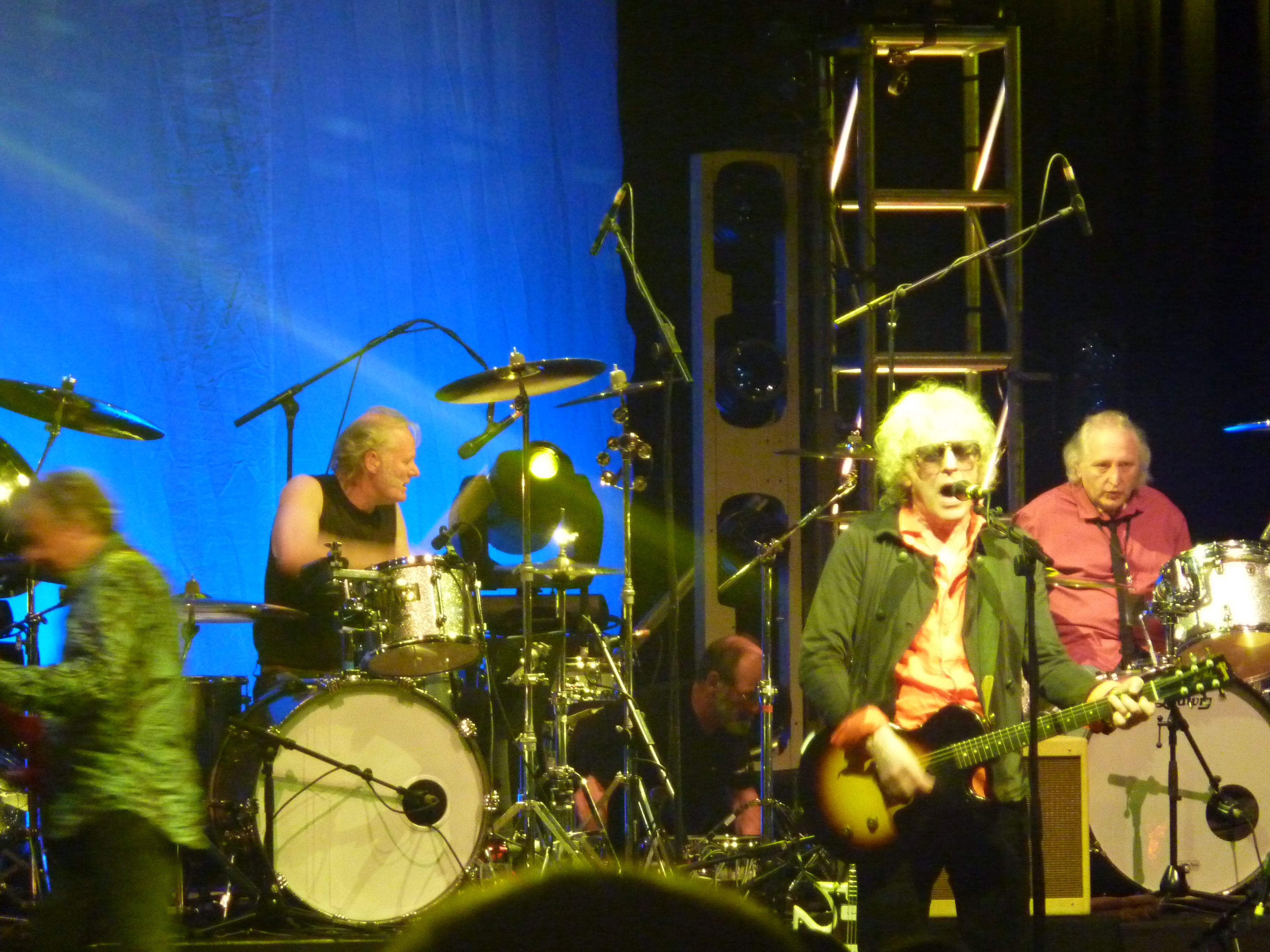 Moot the Hoople reunion gig, 2009.